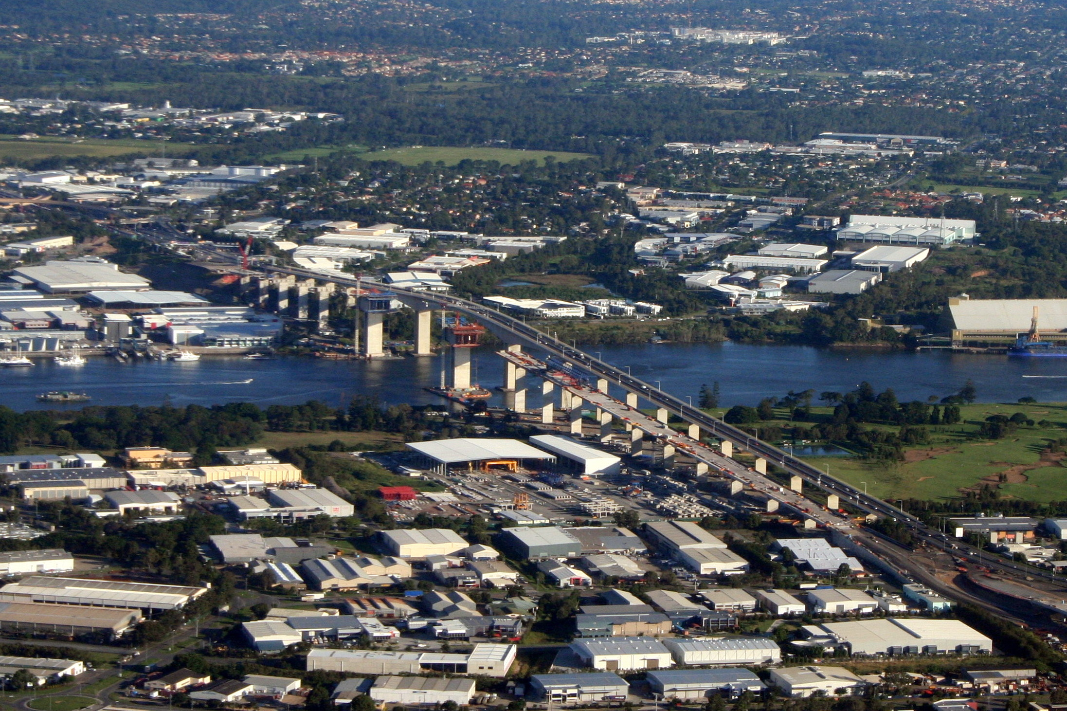 Photographer: Paul Guard